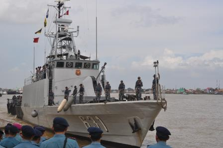 KRI Todak of the Indonesian Navy